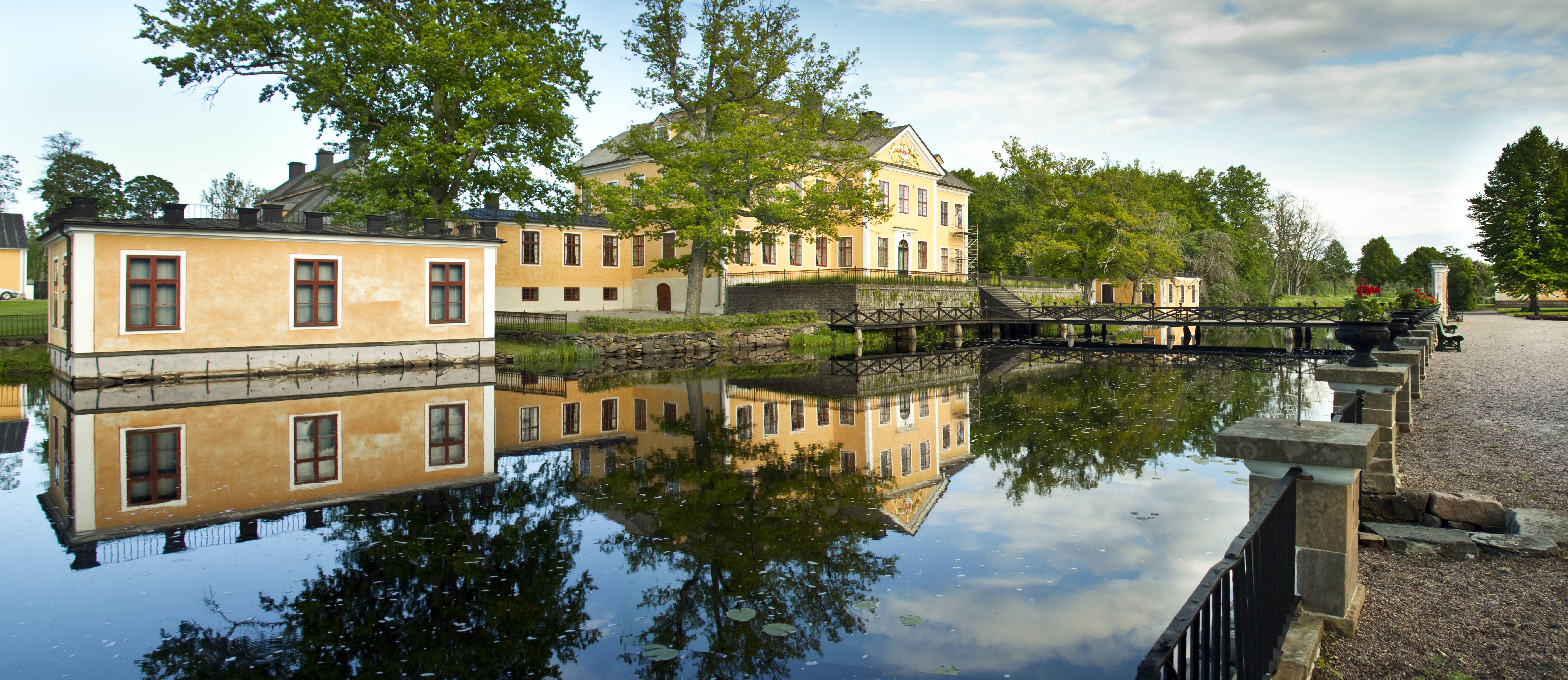 Lövstabruk, the mansion in the mirror of the water.